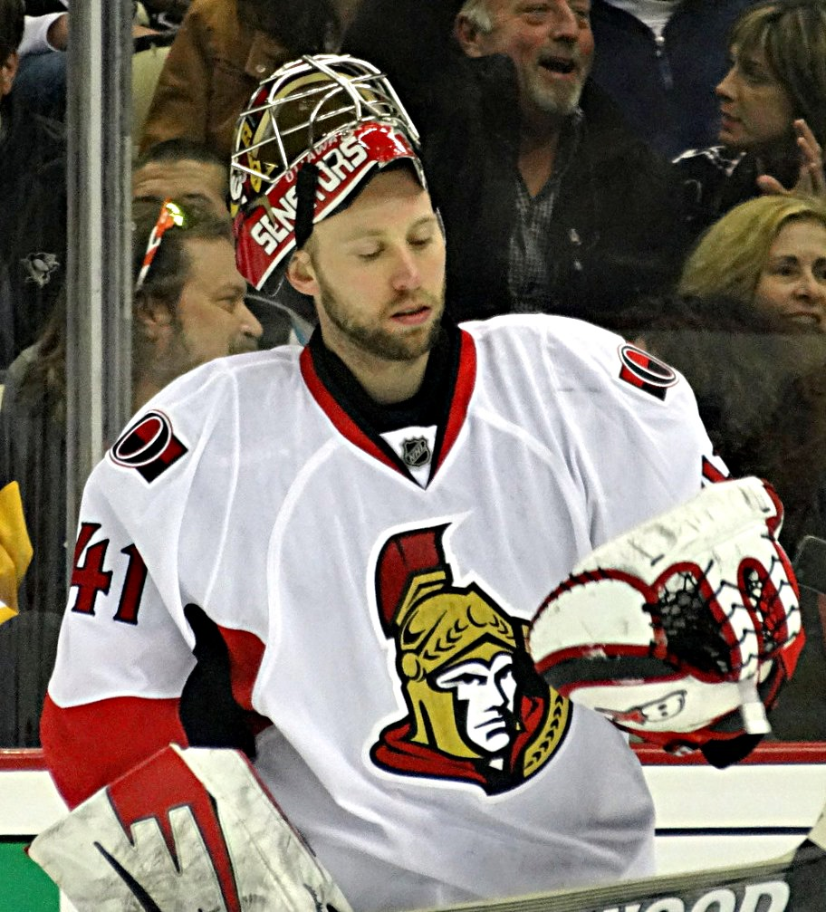 Ottawa goaltender Craig Anderson during game five of the Senators' second round series against the Pittsburgh Penguins, May 24, 2013 at Consol Energy Center in Pittsburgh, PA. The Penguins clinched the series with a 6-2 win.